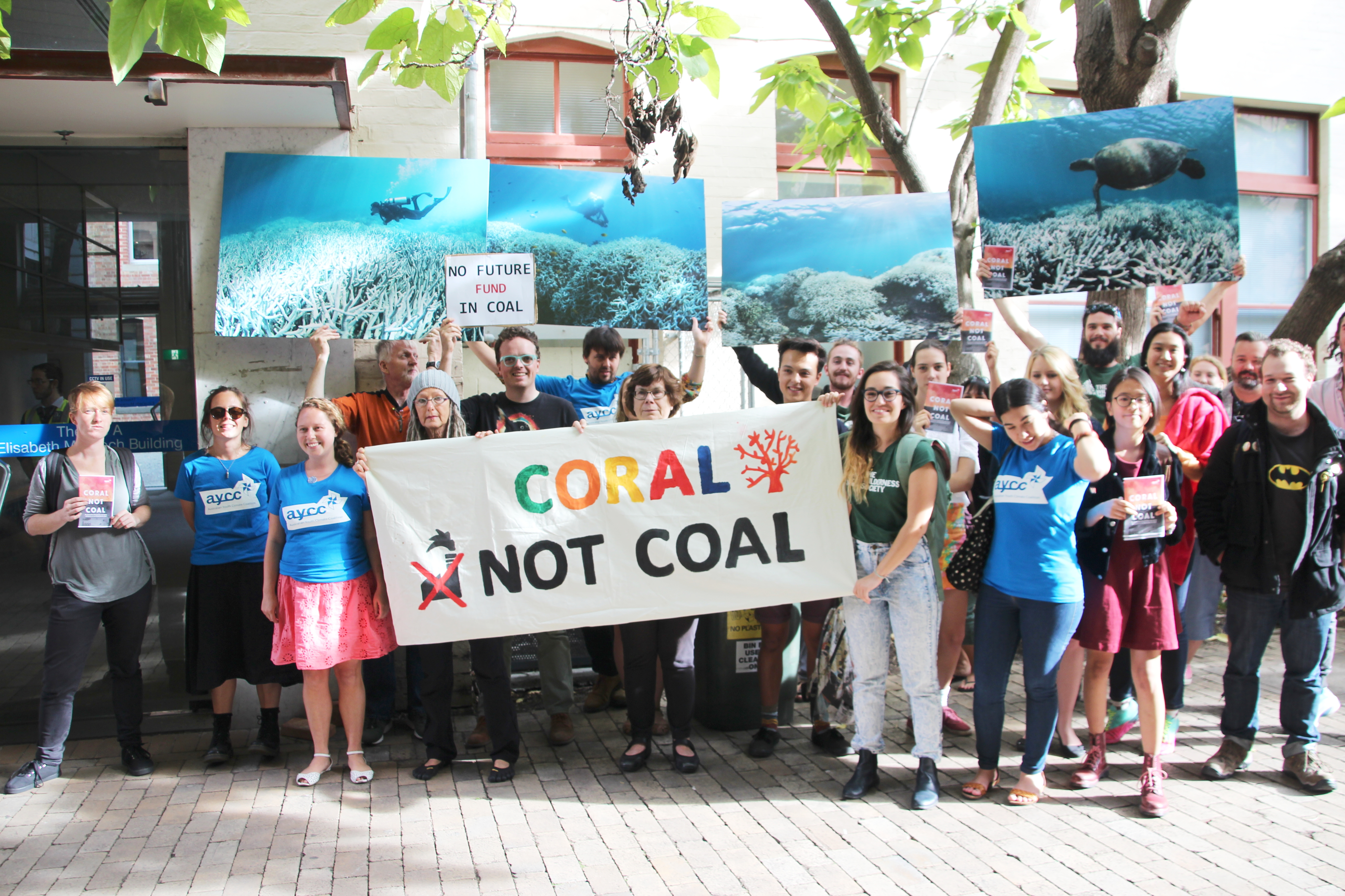 The Indian Finance Minister, Arun Jaitley is in Australia trying to wrangle money for infrastructure projects including the the Adani Carmichael mine in the Galilee Basin. It was reported in Indian media he was meeting with Australian Finance Minister Matthias Cormann and the $117 billion sovereign wealth Future Fund CEO Peter Costello in regard to sourcing funding for the mine. We know that millions of Australians are opposed to opening the Galilee Basin and coal ports on the Great Barrier Reef. This week we have seen the worst ever bleaching event on the Great Barrier Reef. We know that we can’t have coal and coral, we have to choose. See the ABC 7.30 Report on the extreme bleaching event caused by climate change. The Snap protest was organised by AYCC outside a public lecture by Finance Minister Arun Jaitley at Melbourne University.